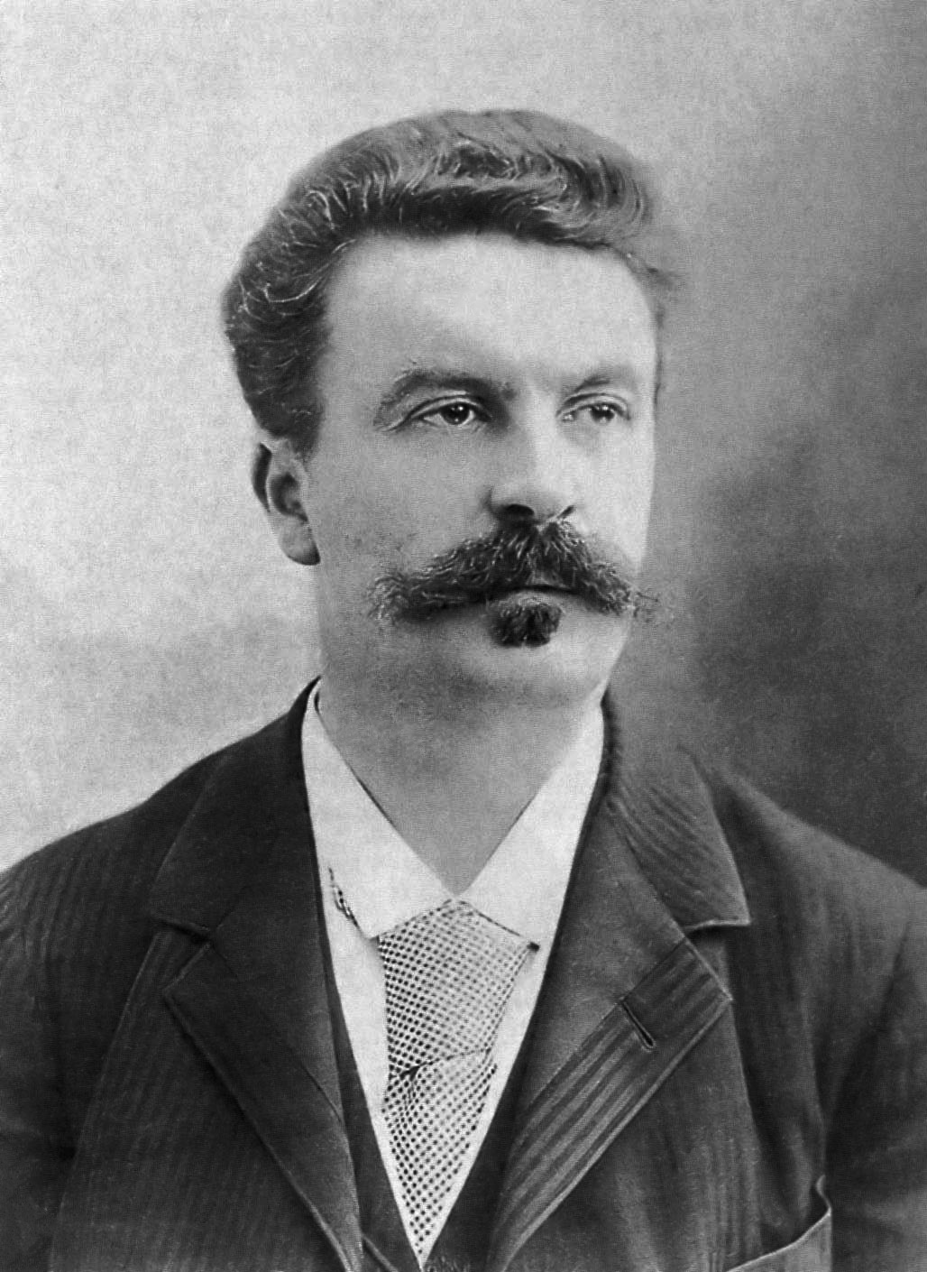 Guy de Maupassant.